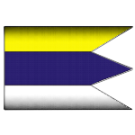 Flag of Čeláre, Slovakia